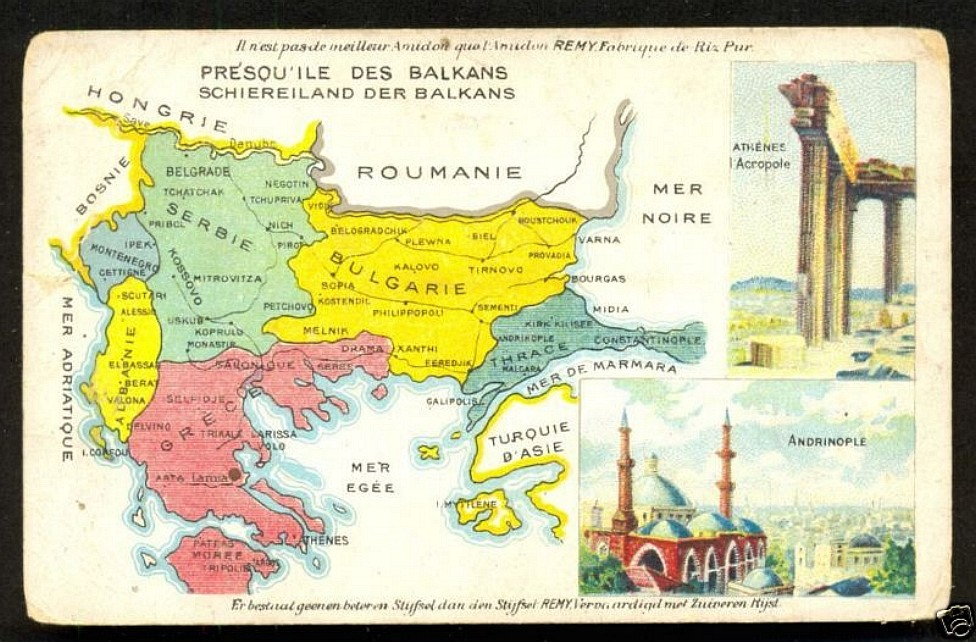 Postcard issued in 1913 or 1914. Retailers and manufacturers, such as the Belgian starch manufacturer Amidon Rémy, often used the postcard format for advertising. Colourful maps, current events, royal visits, colonial scenes, etc. plus a commercial logo or slogan (here in French and Flemish).